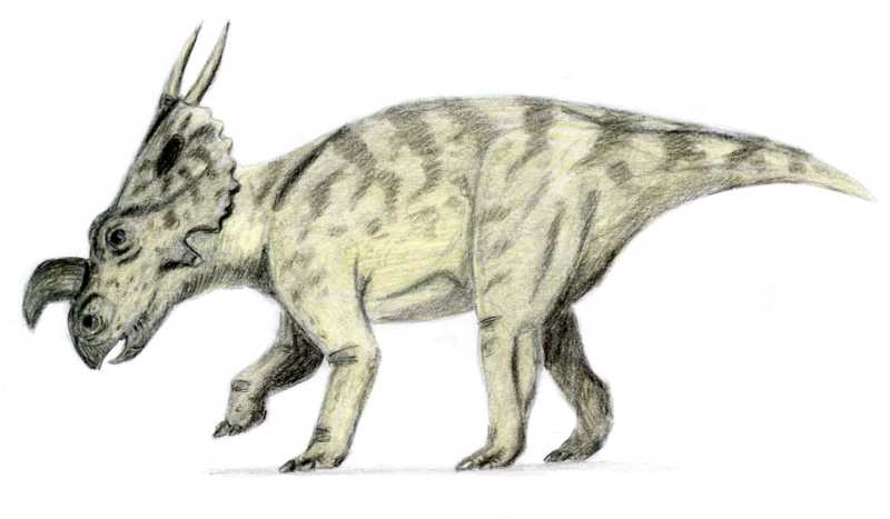 Einiosaurus, pencil drawing Author:User:ArthurWeasley